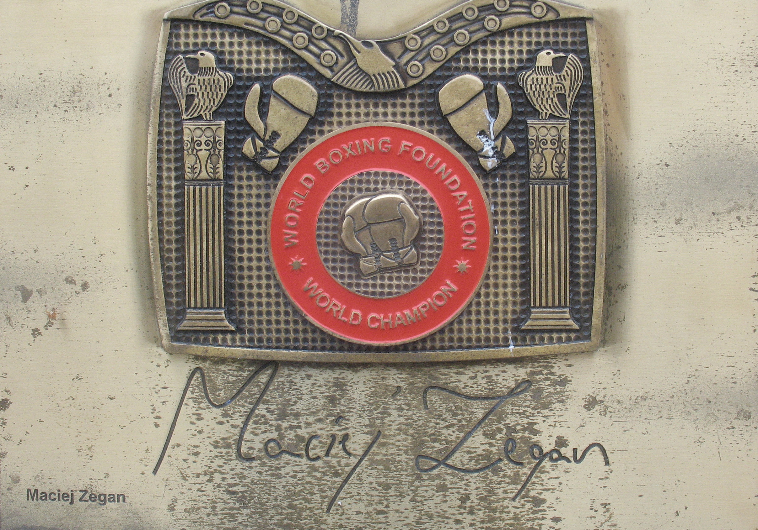 Maciej Zegan belt and autograph in Avenue of Sport Stars Dziwnów